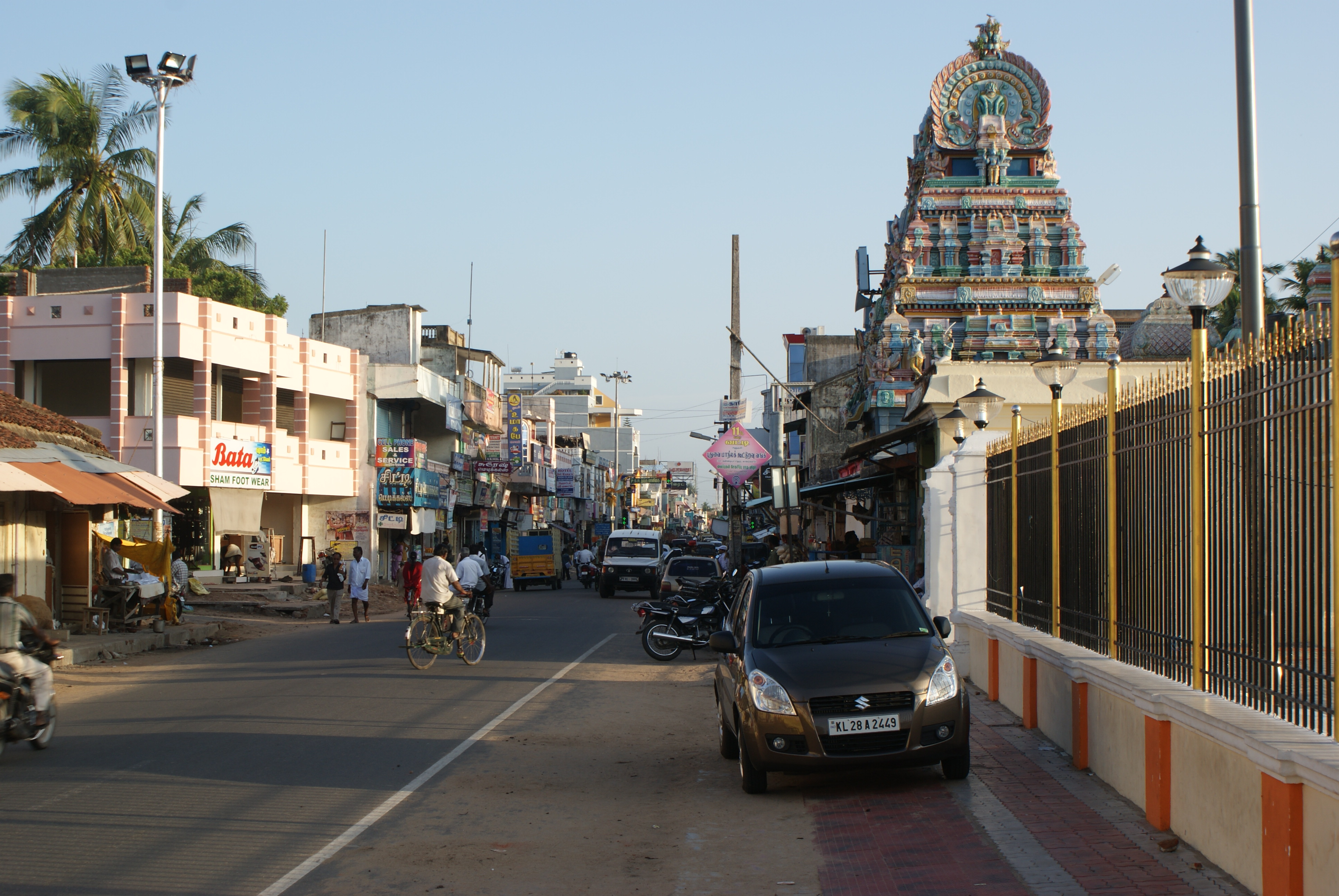 Main road of Karaikal